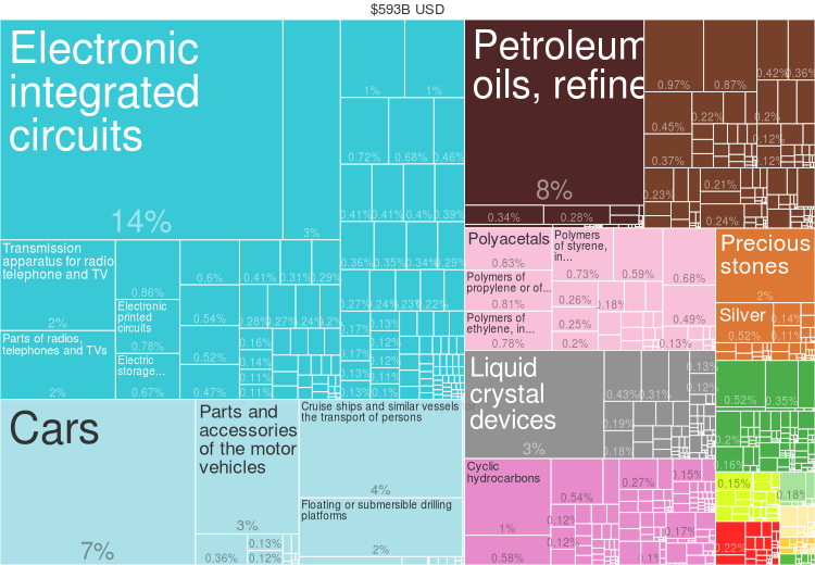 2014 Korea Products Export Treemap